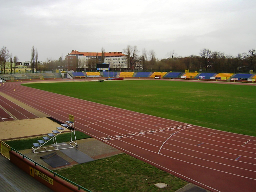 Torun City Stadium running track